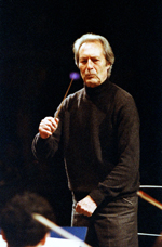 Italian conductor Carlo Maria Giulini